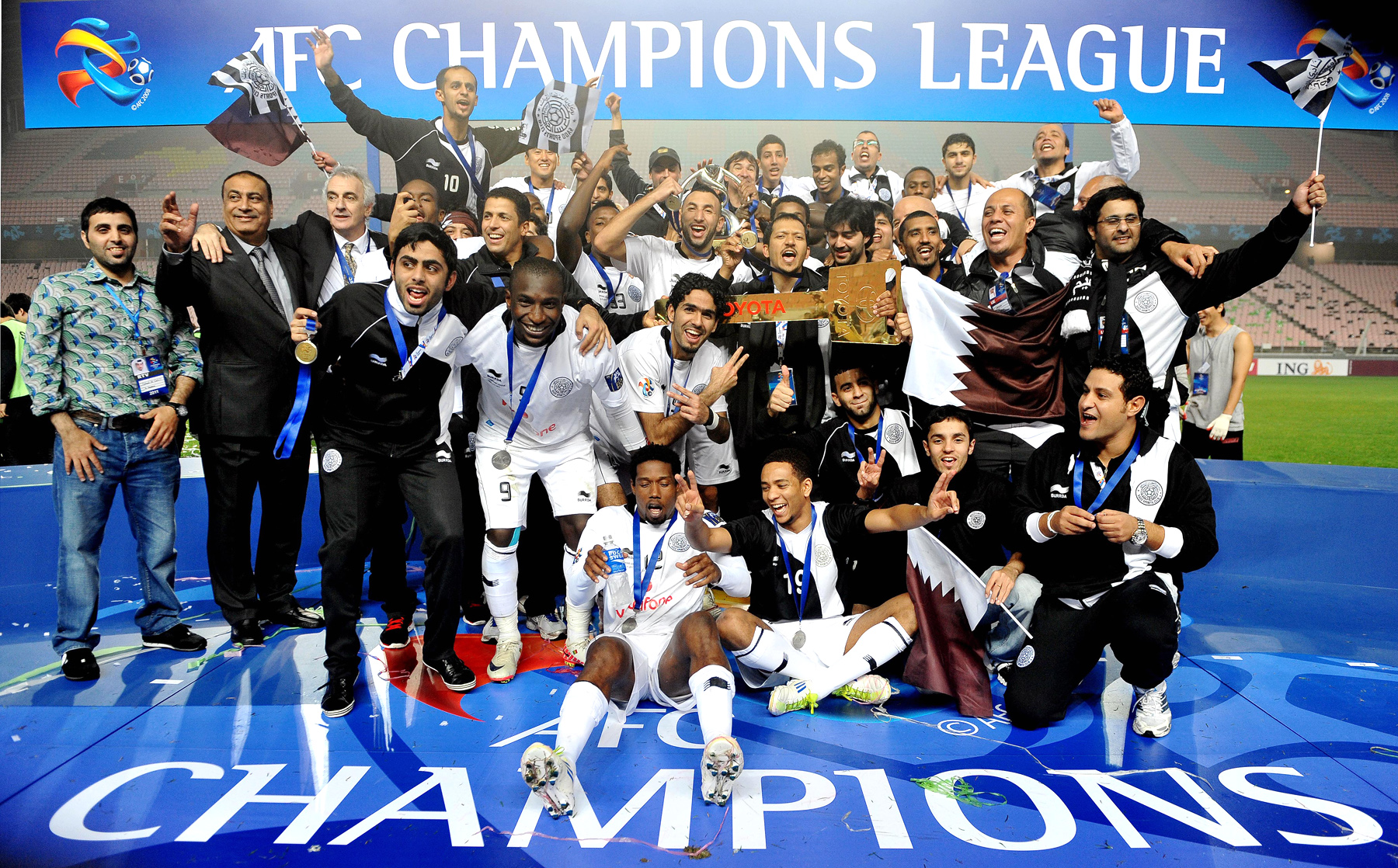 Members of the Al Sadd team celebrates after winning the AFC Champions League trophy. Pic by Doha Stadium Plus